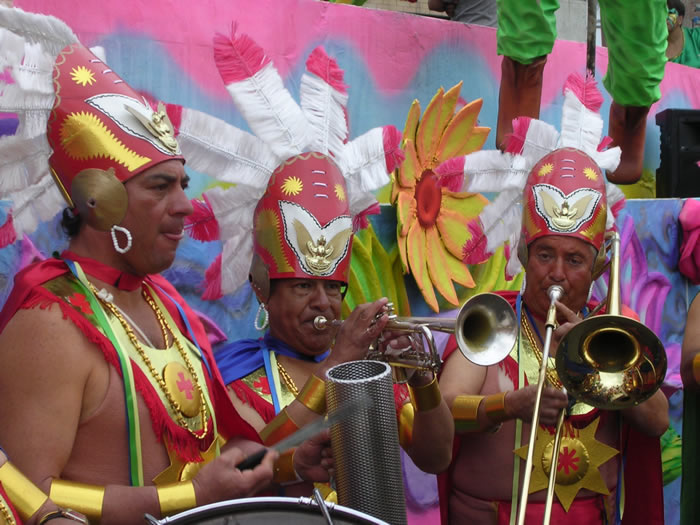 Blacks and Whites Pasto Carnival Murga (Brass Band)